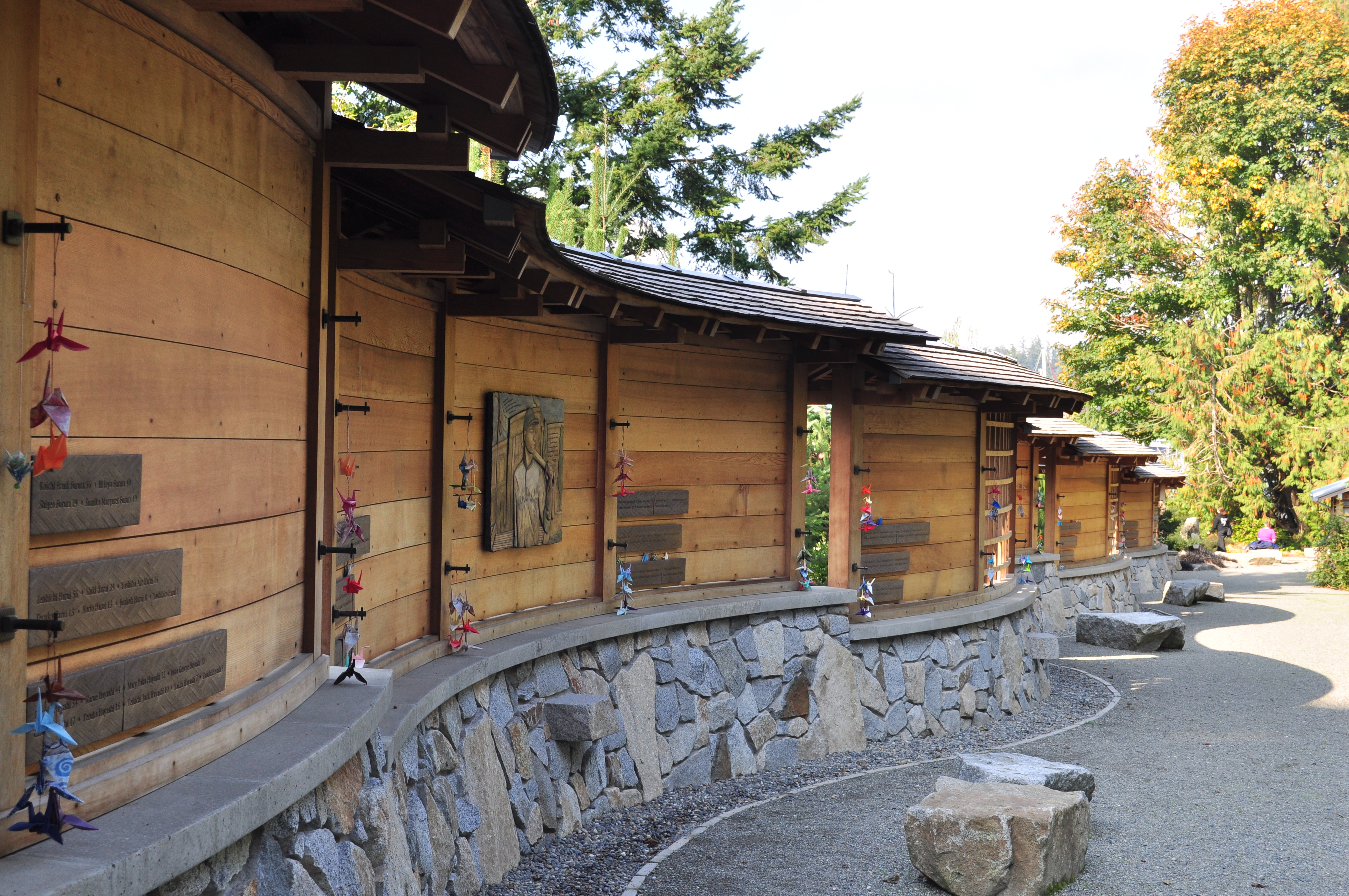 Cedar "story wall," Bainbridge Island Japanese American Exclusion Memorial, Bainbridge Island, Washington.